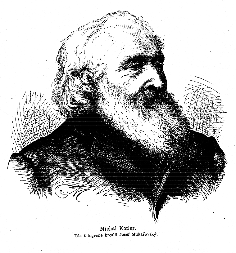 Portrait of Michal Antonín Kotler (1800-1879), Czech dealer in precious stones and business traveler to Russia